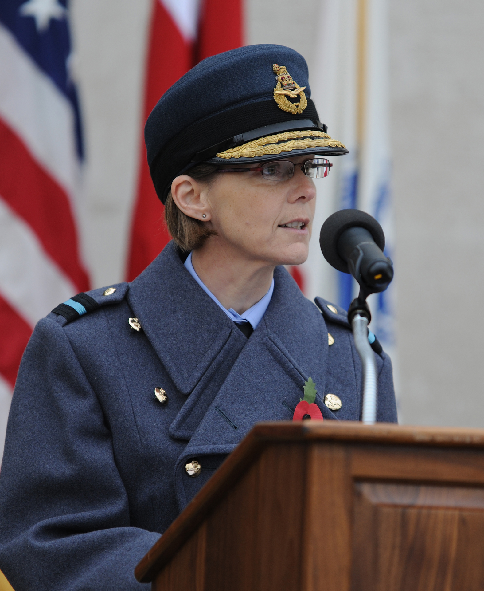 CAMBRIDGE, United Kingdom - Air Commodore Elaine West, Air Officer Assistant Chief of Staff and Air Officer Commanding Directly Administered Units, Headquarters Air Command speaks during a ceremony at Cambridge American Cemetery and Memorial Nov. 11. More than 300 servicemembers stationed across England, veterans of both nations and those who came to honor heroes past and present participated in the event.